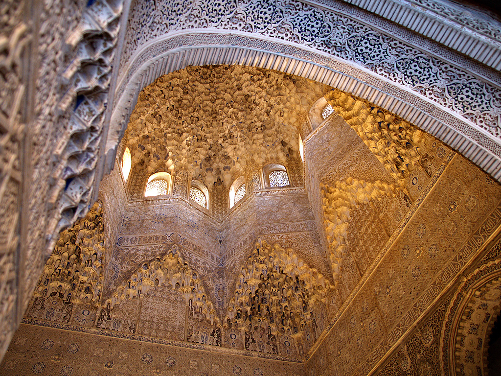 This shot shows some of the intricate Islamic carvings in the Alhambra Palace, Granada. The dim interior conditions meant that I should have used a tripod, but it was just not possible with the crowds of tourists being ushered through as if on a conveyor belt. So I leaned against the wall and took a deep breath to keep the camera steady. Please click on All Sizes and view the original version to get a better idea of the intricacy. (NOTE: The details of the vault are plaster, not carving as stated by the photographer. Amandajm)Alhambra Carvings